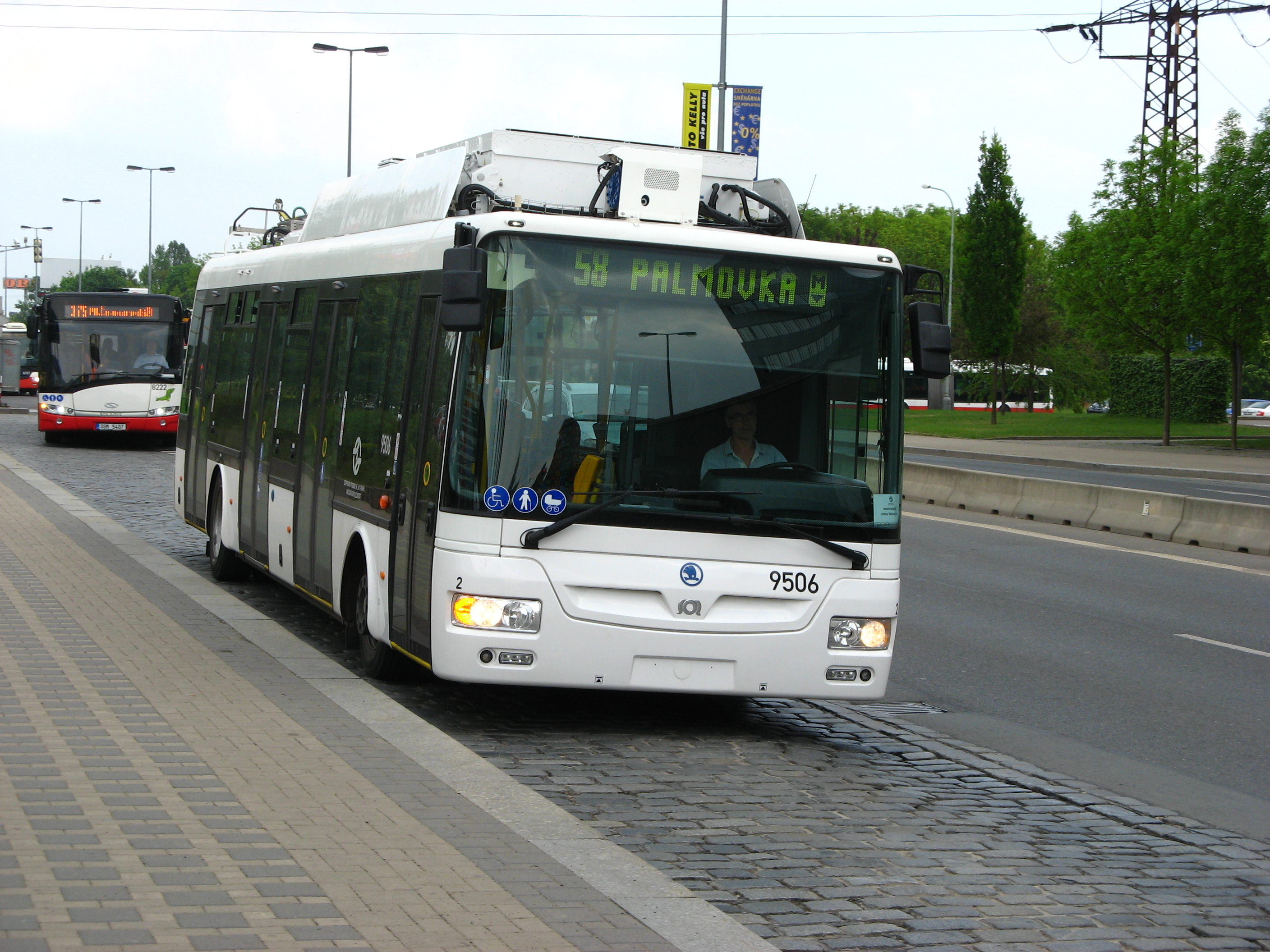 Partial trolleybus Škoda 30Tr SOR in test operation in Prague, line 58, stop Prosek